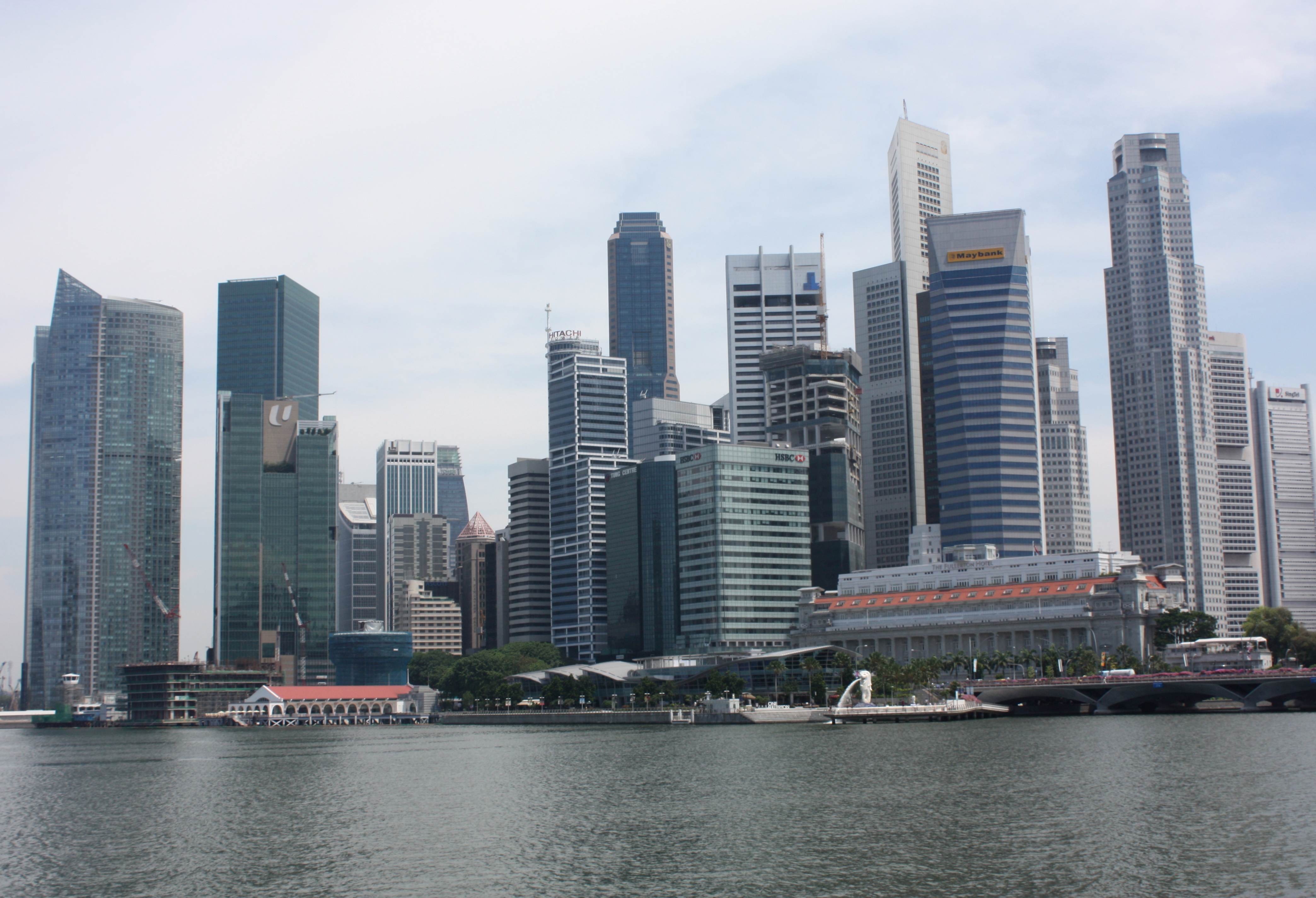 Photo of the Central Business and Financial District of Singapore taken by Wolfgang Holzem /